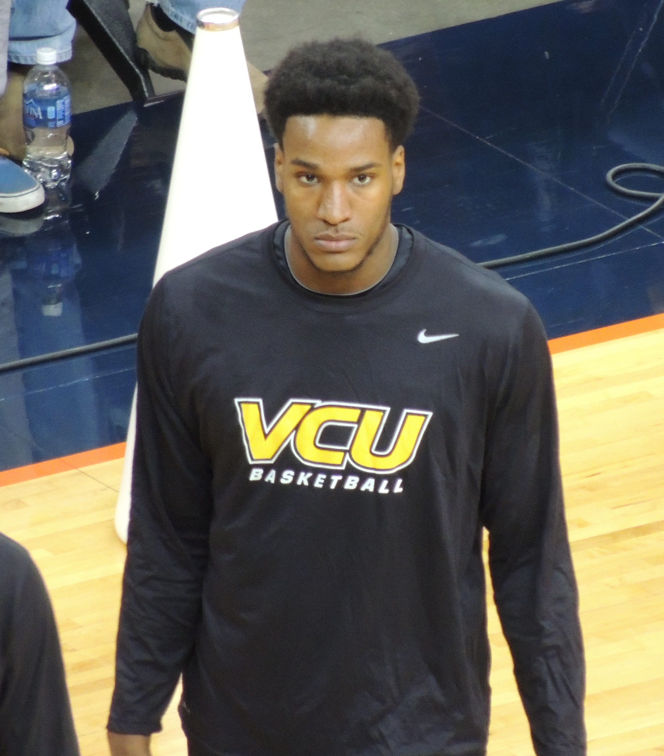 American basketball player Juvonte Reddic warms up for VCU in a game in November, 2013 at Charottesville, Virginia